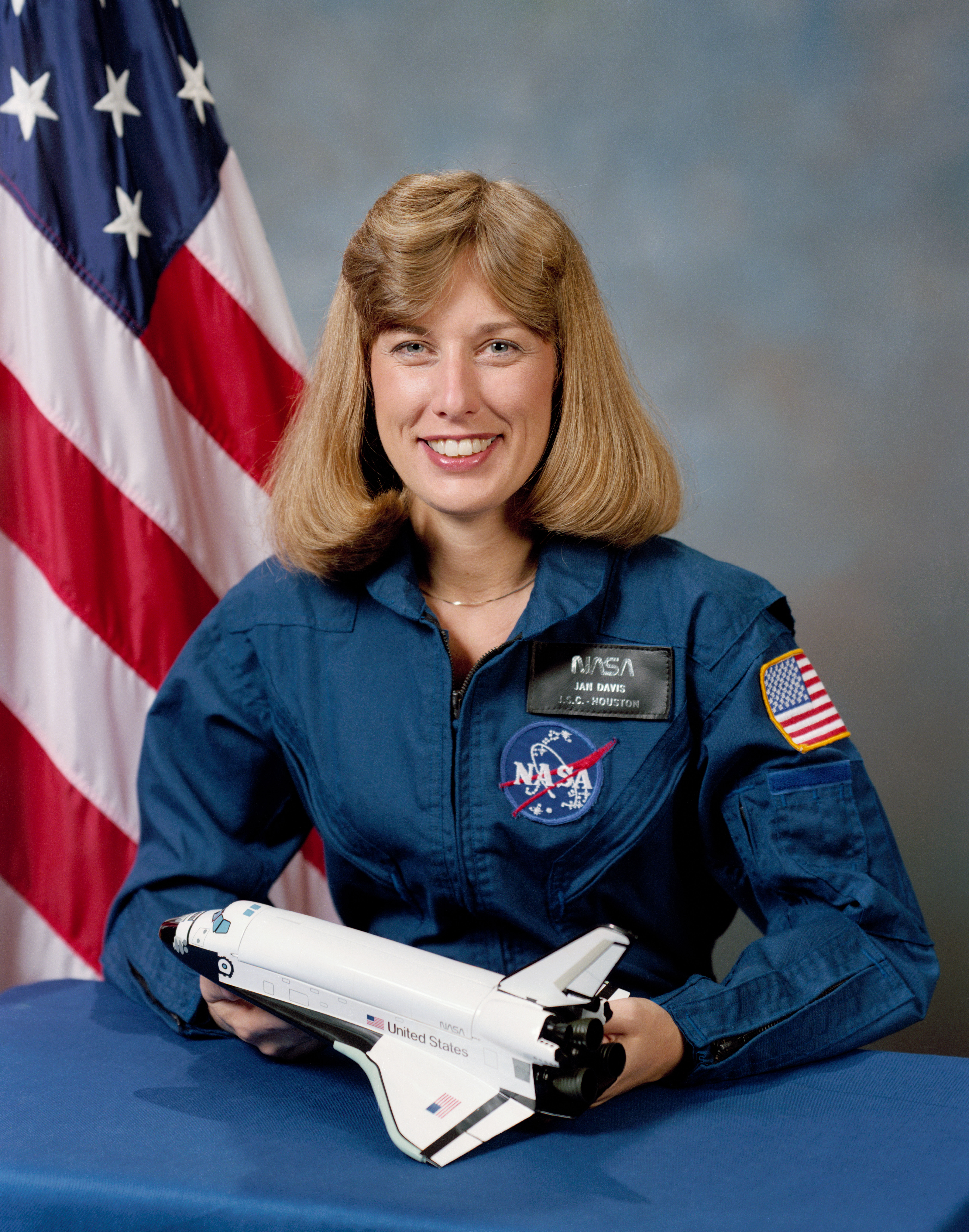 Astronaut Nancy Jan Davis, payload commander